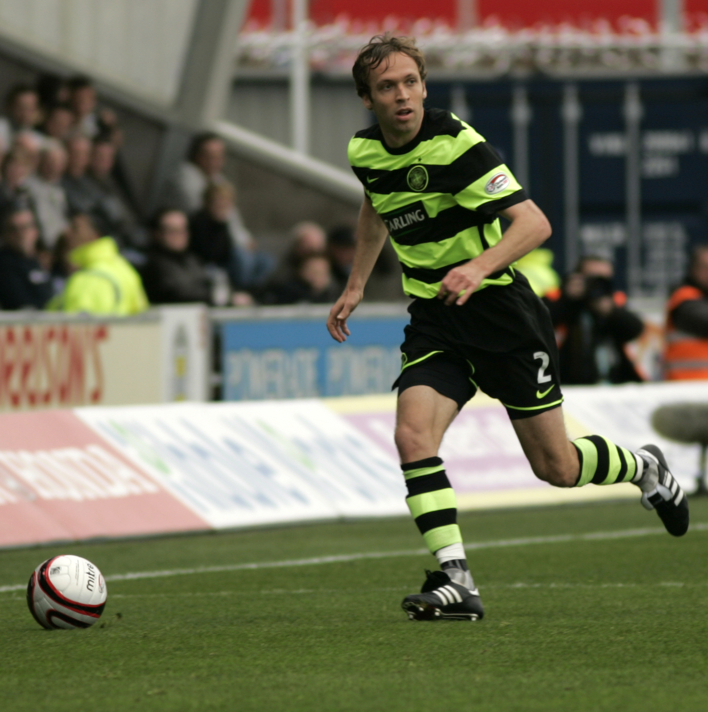 St Mirren 0 vs Celtic 2 Scottish Premier League